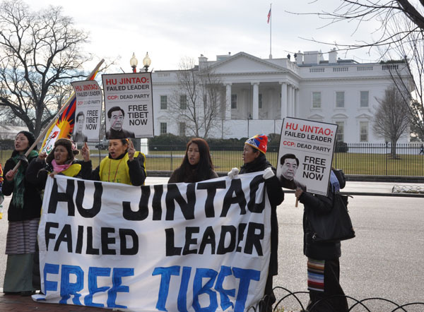 The event was organized by Students for a Free Tibet.